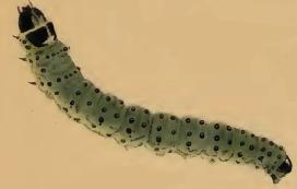 Stainton’s Natural History of the Tineina (1855–1873): Depressaria pimpinellae